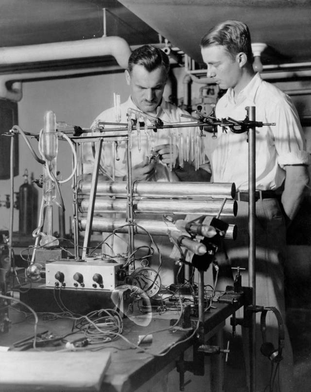 Graduate student Luis Walter Alvarez is shown in 1933 with Arthur Compton, with whom he worked on cosmic ray programs for his Ph.D. thesis at the University of Chicago.